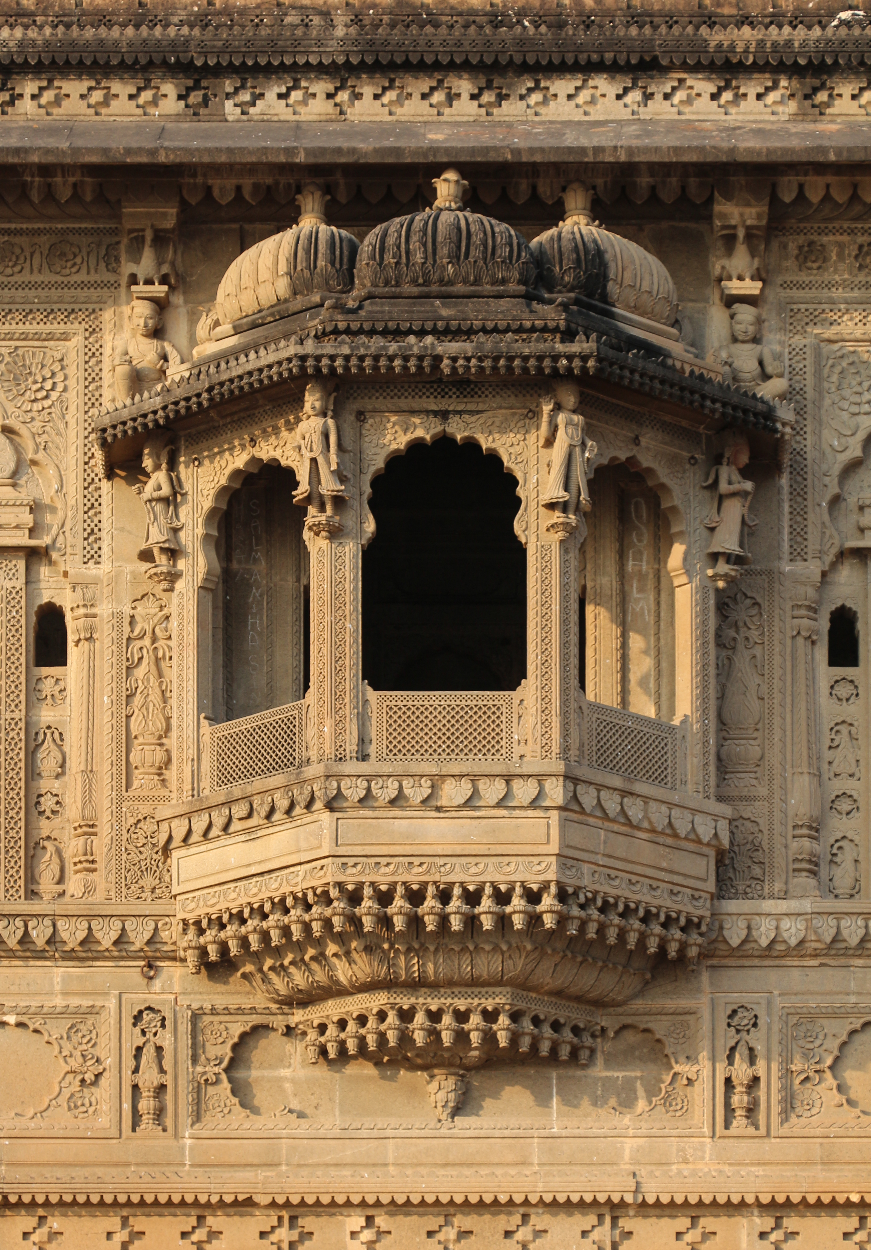 A jharokha in Maheshwar Fort, Maheshwar, India